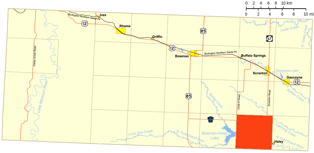 Map of Bowman County, ND, with Goldfield Township highlighted